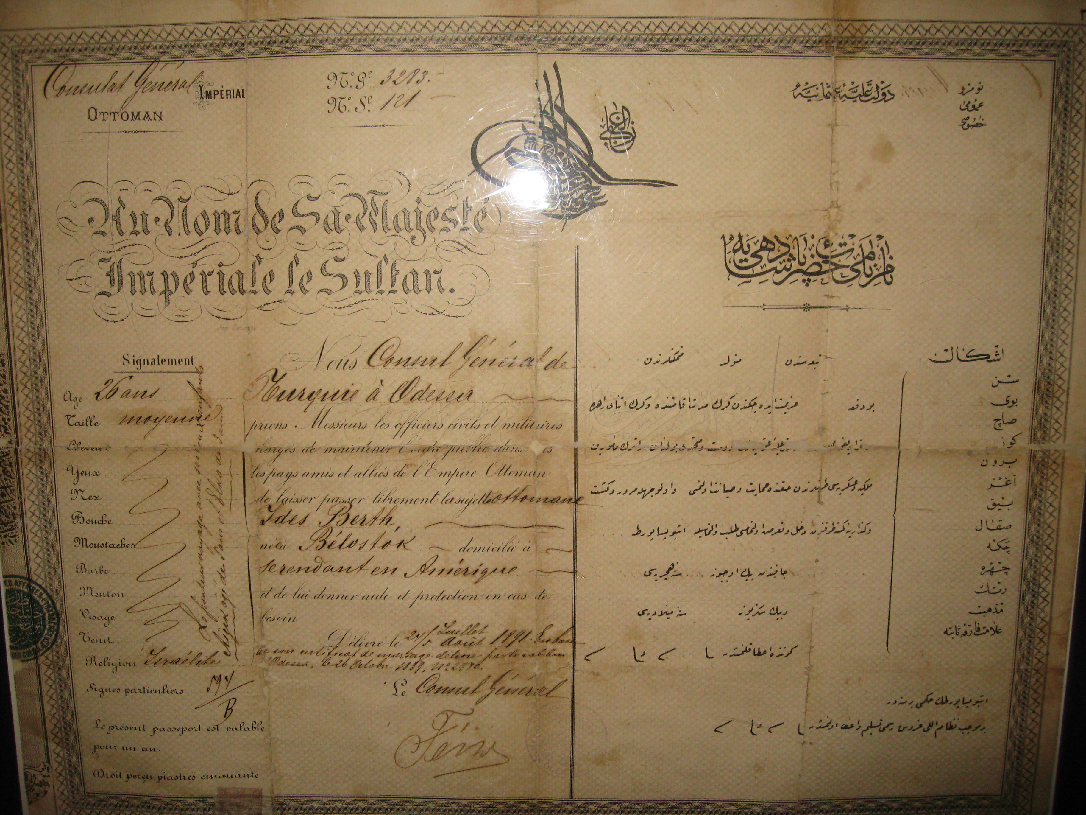 Old Ottoman passport This one was about 11x17 inches